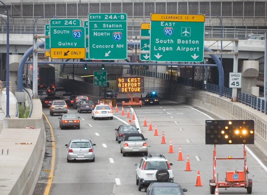 Boston traffic is re-routed from the Ted Williams tunnel during rush hour in Boston, July 11, 2006.